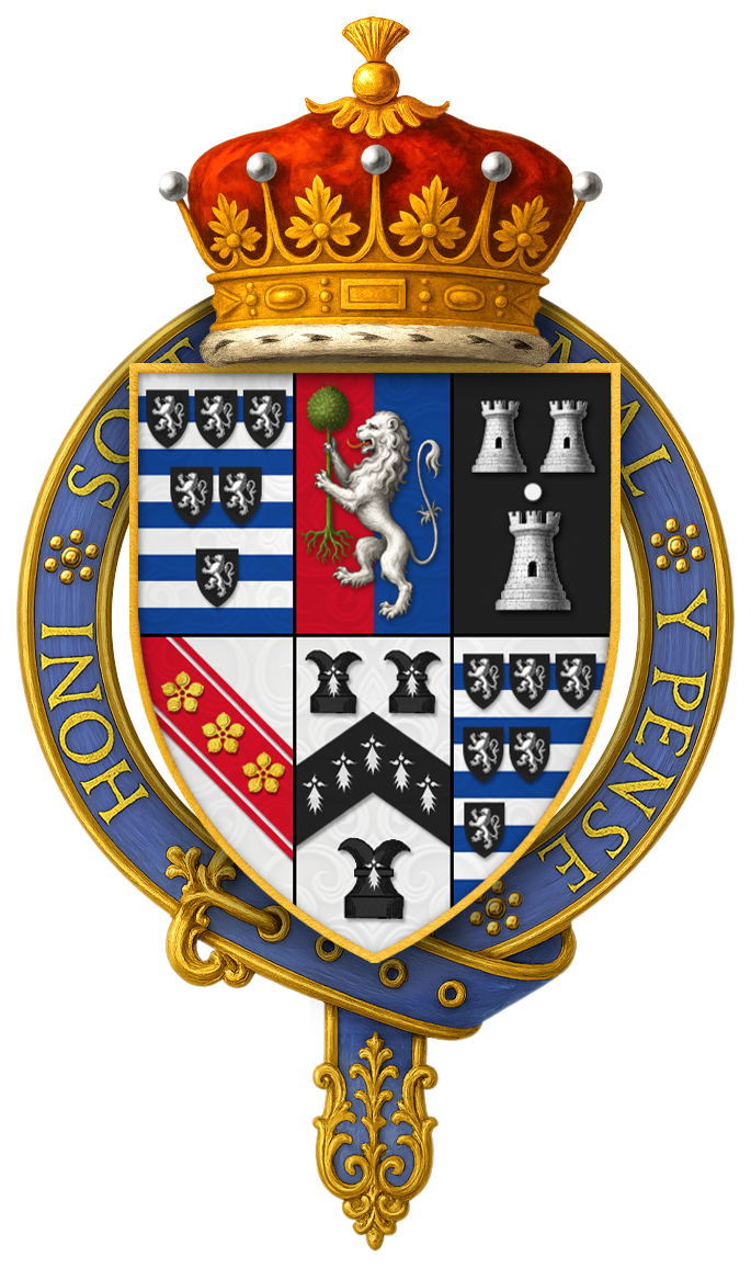 Coat of arms of Sir Thomas Cecil, 1st Earl of Exeter, KG